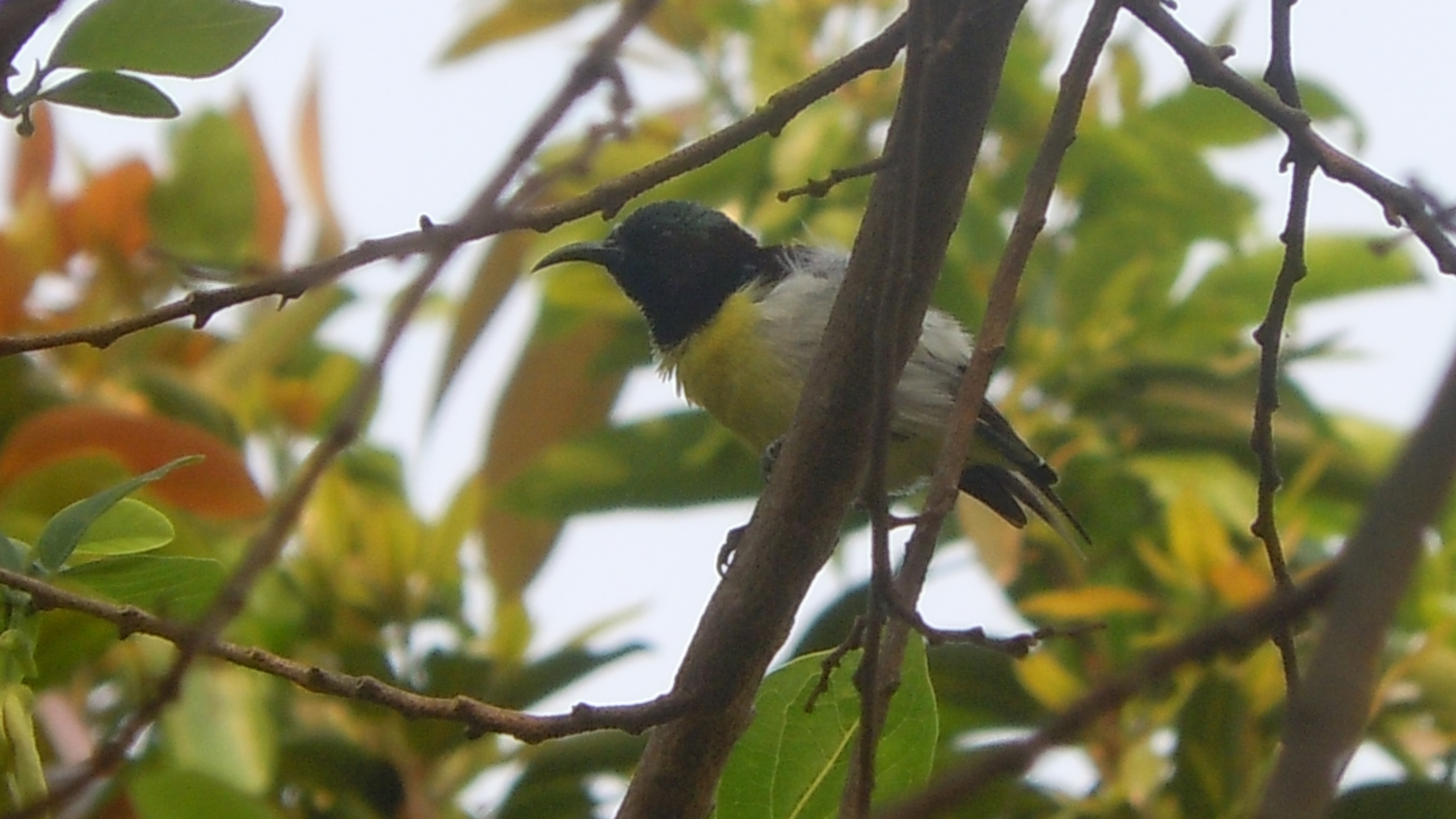 Purple-rumped Sunbird (Leptocoma zeylonica) at Madhurawada, Visakhapatnam